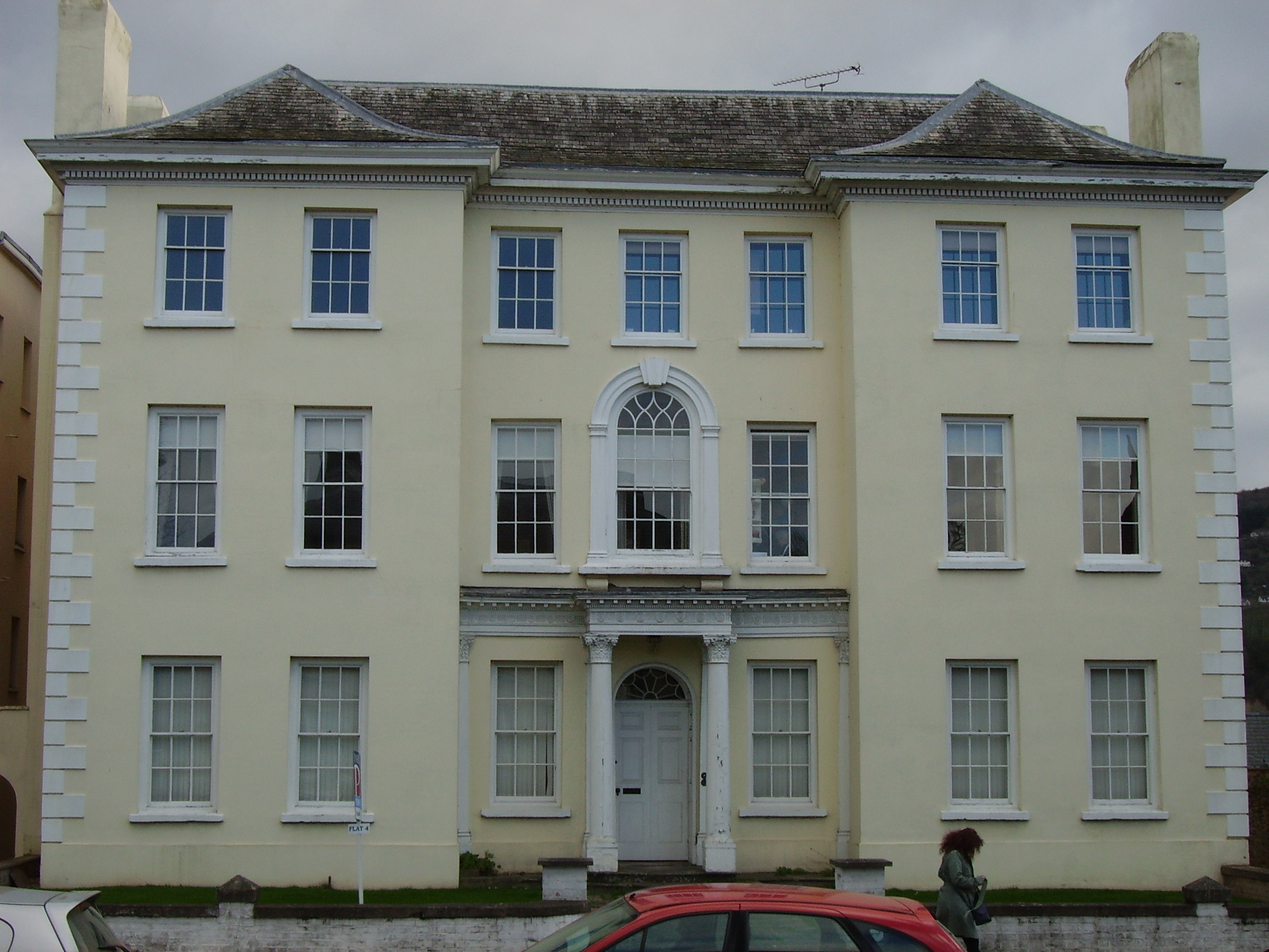 The Royal George Hotel, Monk Street, Monmouth, Wales